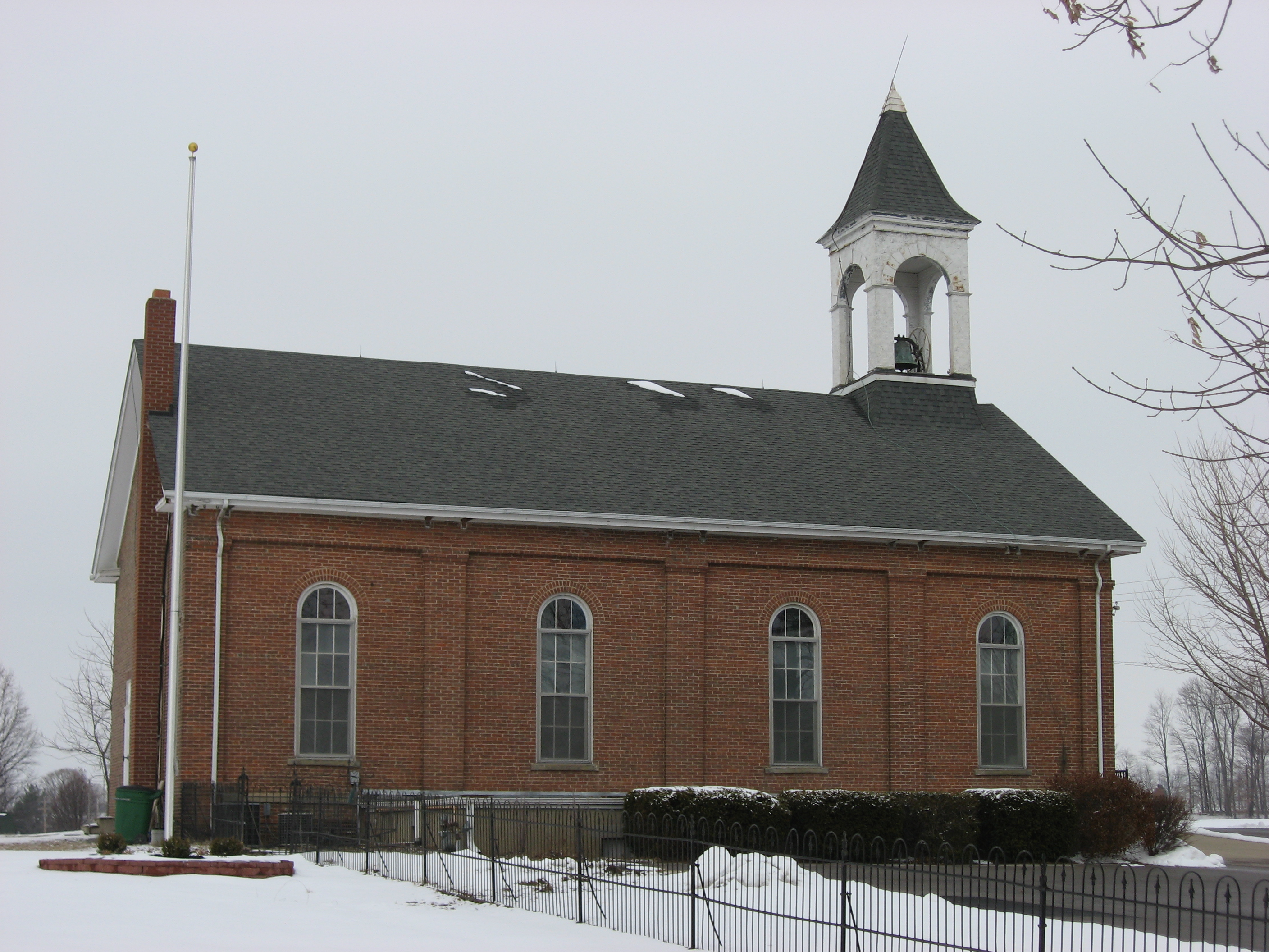 Southern side and rear of St. George Lutheran Church, located at 10931 South 600 West east of Edinburgh in Jackson Township, Shelby County, Indiana, United States. Built in 1867, it is listed on the National Register of Historic Places.